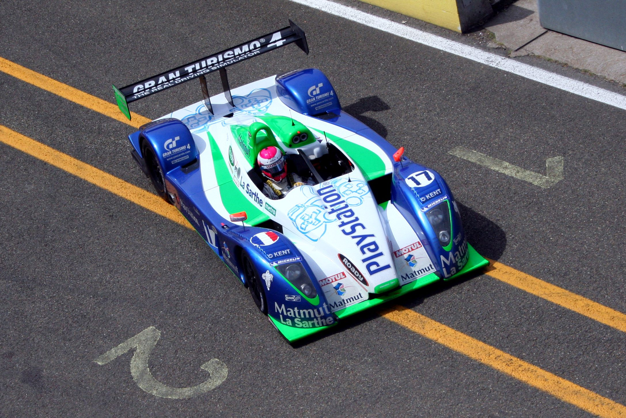 Franck Montagny driving a Pescarolo C60 - Judd at a testsession on 4th june 2006 before 24 hours of Le Mans 2006.